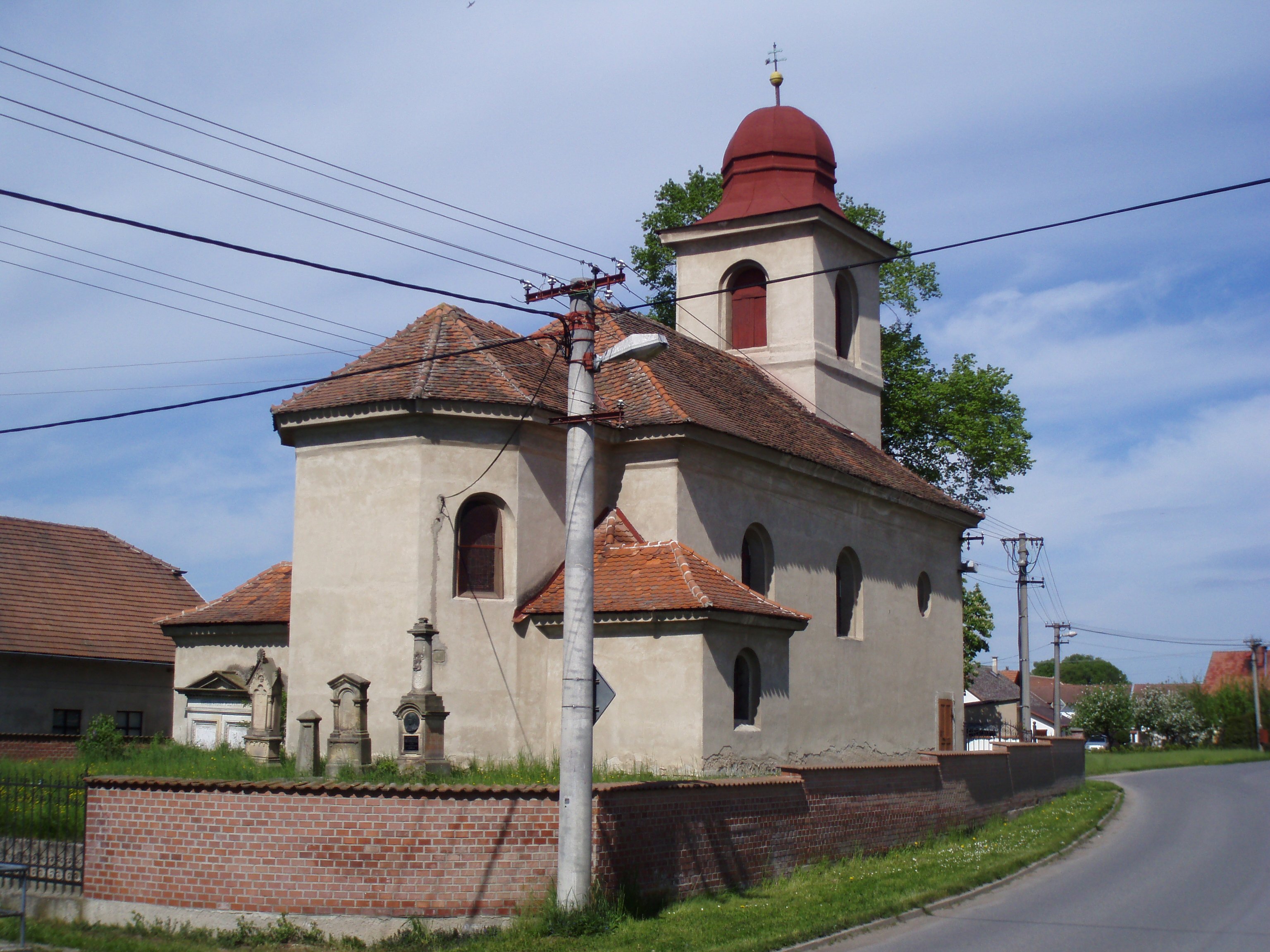 Church in Praskačka (District of Hradec Králové)